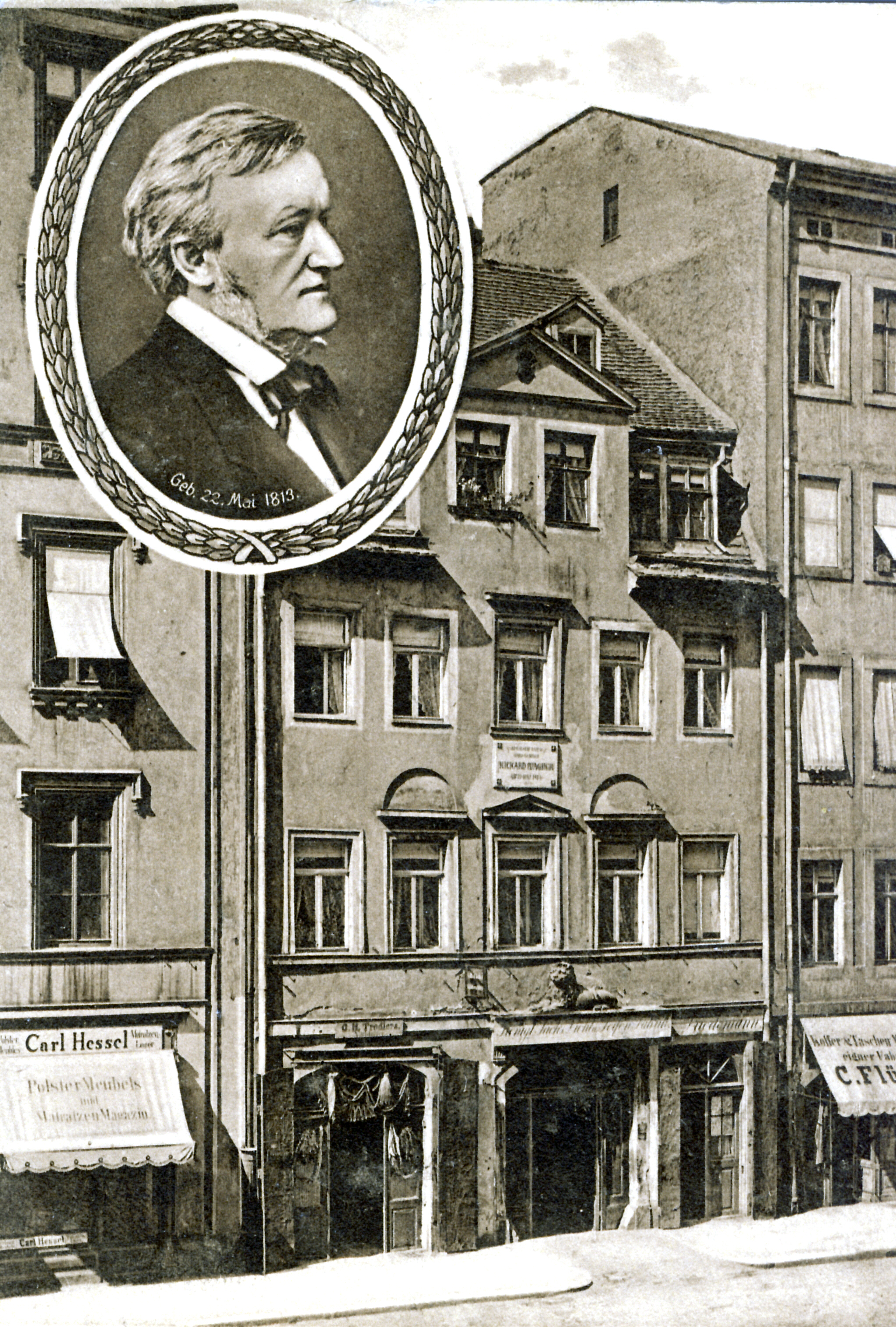 Birth house of Richard Wagner in Leipzig, Bruehl 3 in 1885, demolished in 1886